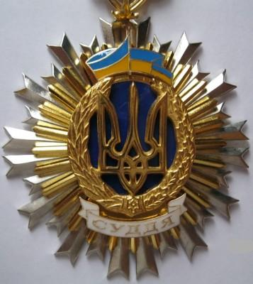 Емблема Одеського окружного адміністративного суду